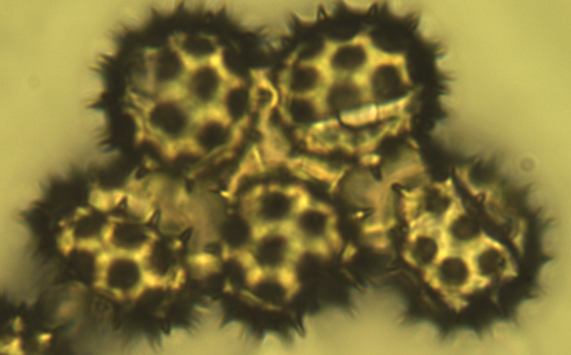 Bellis perennis Pollen 400x im Lichtmikroskop